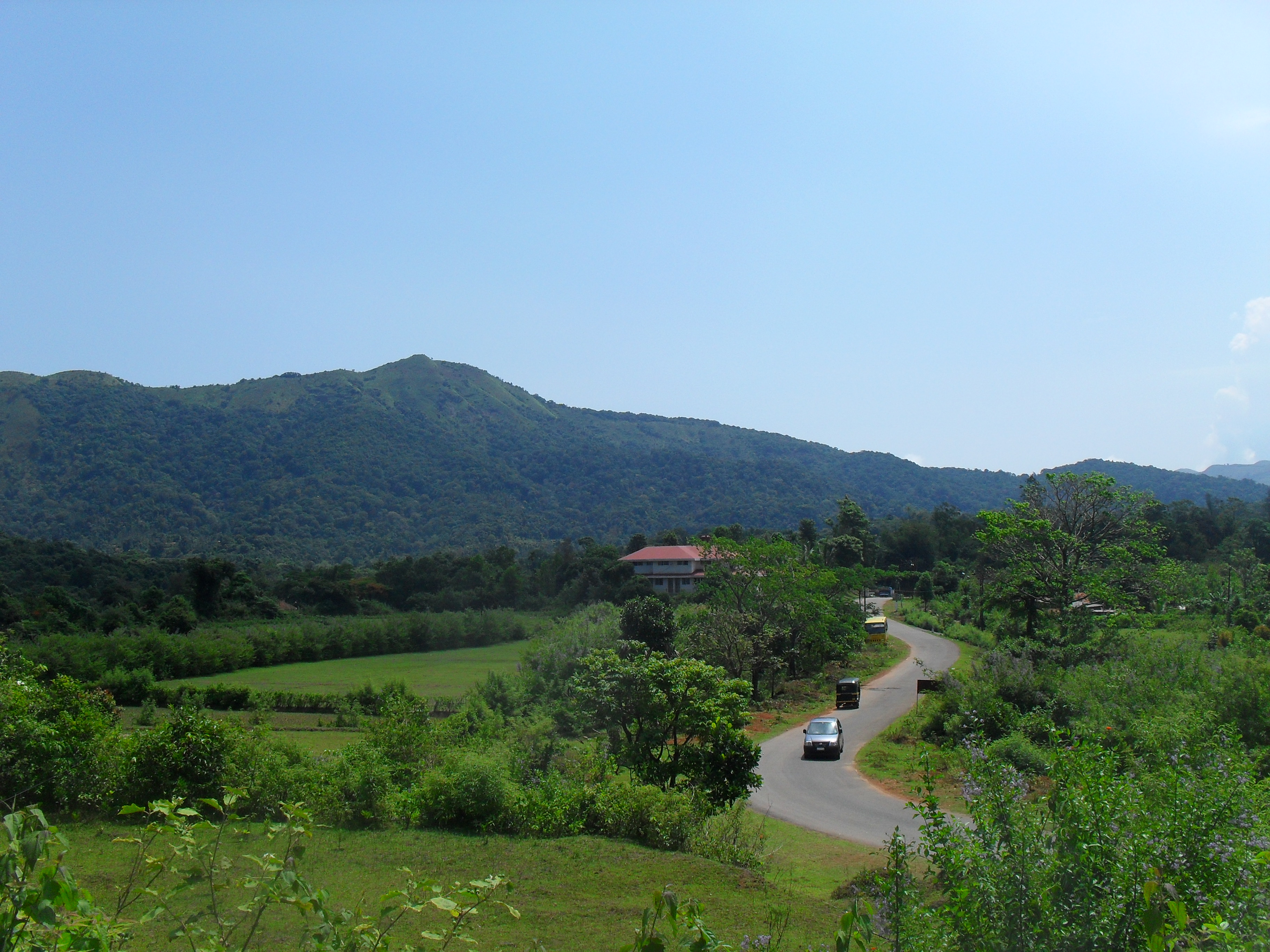 Picture of Bhagmandala from a road above